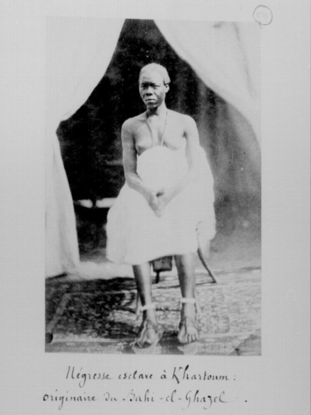 "Négresse esclave à khartoum, originaire du Bahi-el-Ghazel.", photographed in 1882 by the French diplomat Louis Vossion.